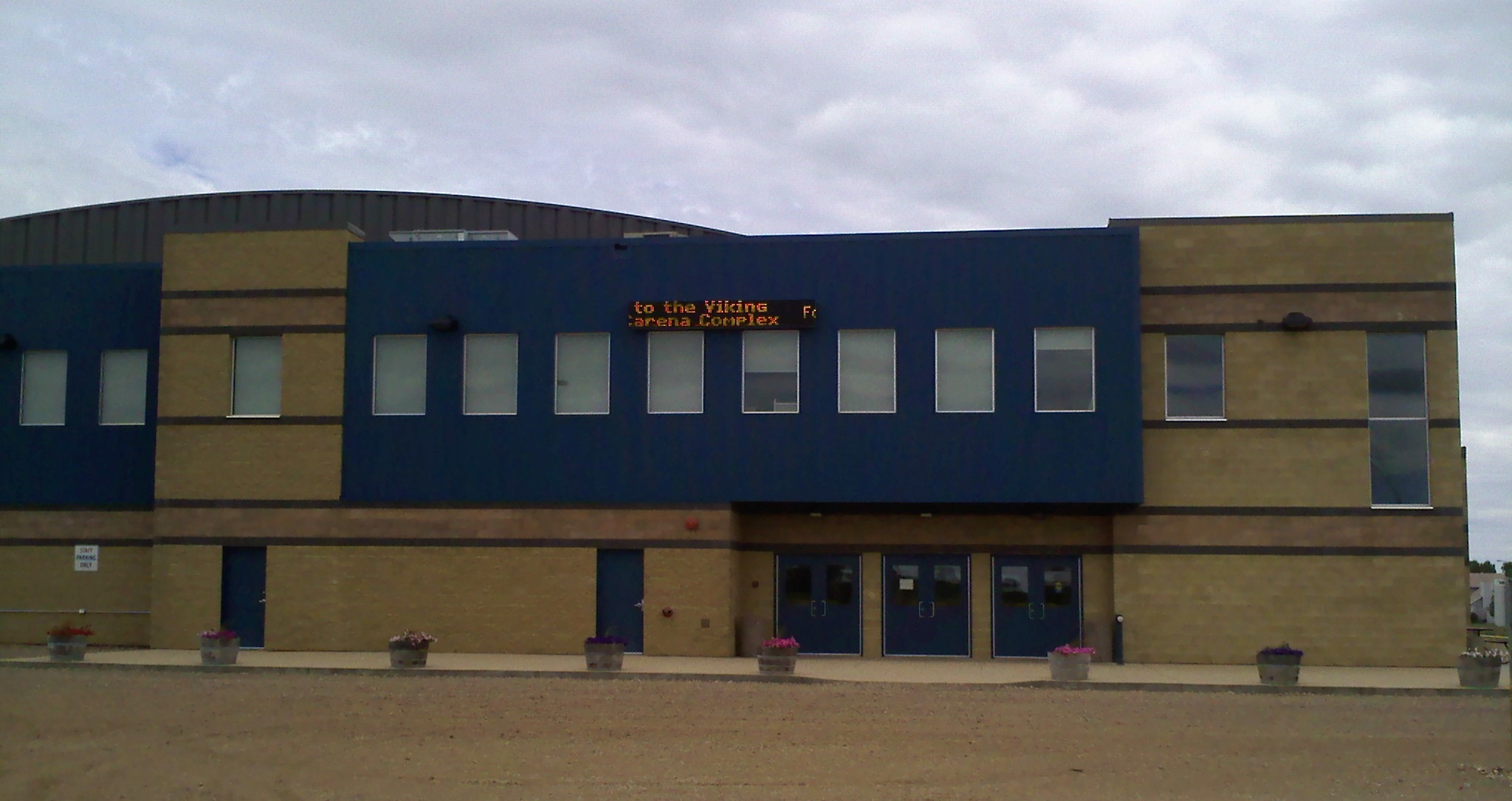 Front of the Viking Carena Complex, 5120 45 Street, Viking, Alberta.